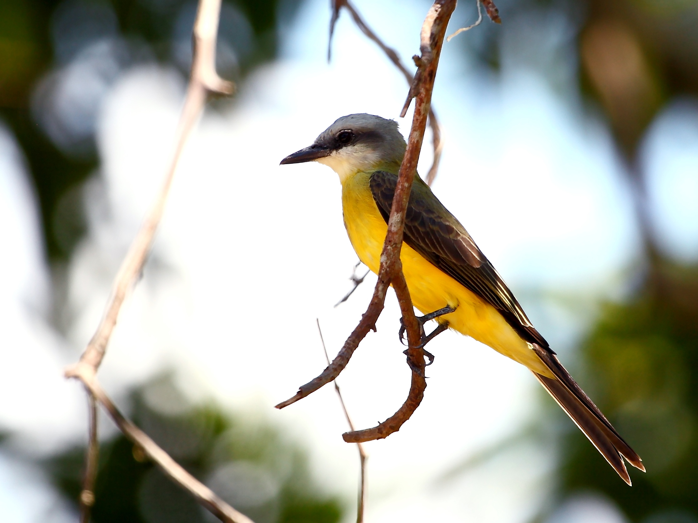 White-throated Flycatcher; Iranduba, Amazonas, Brazil